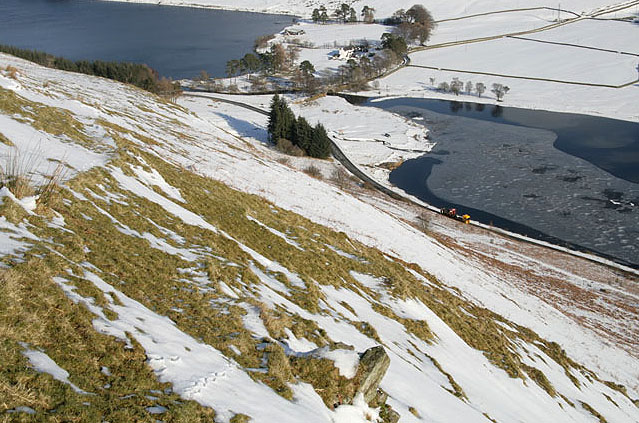 Towards Tibbie Shiels Looking down the hillside above the Glen Cafe with St Mary's Loch on the left and Loch of the Lowes on the right. Tibbie Shiels Inn stands on the isthmus between the lochs.